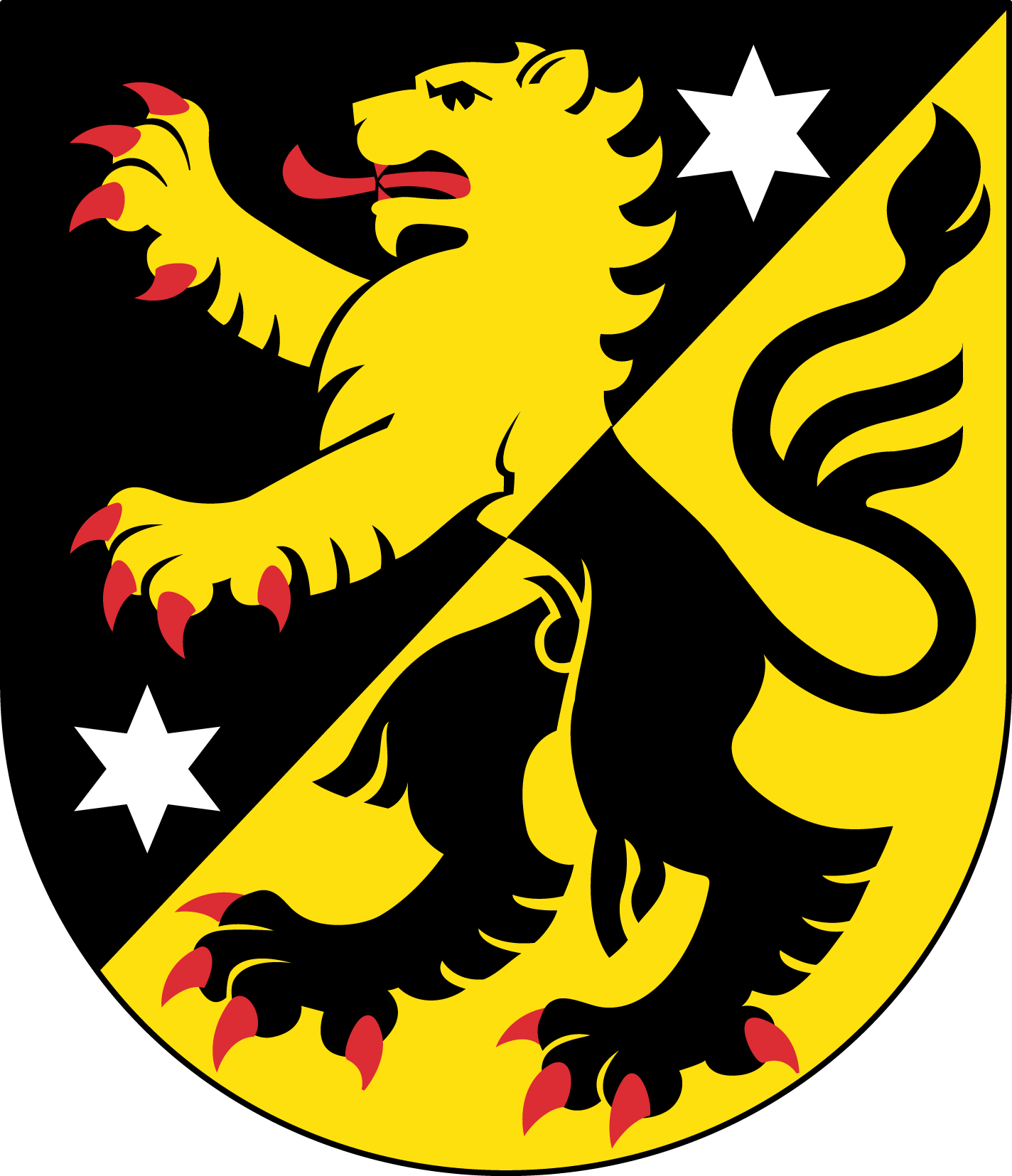 Coat of arms of the province of Västergötland, Sweden. Painted by Vladimir A. Sagerlund when he was the heraldic artist at the National Archives of Sweden (Riksarkivet). This representation of a coat of arms is potentially different from the one used by the armiger (municipality or organisation) in question. = ⇑“Sable, a lionrampant or” This coat of arms was drawn based on its blazon which – being a written description – is free from copyright. Any illustration conforming with the blazon of the arms is considered to be heraldically correct. Thus several different artistic interpretations of the same coat of arms can exist. The design officially used by the armiger is likely protected by copyright, in which case it cannot be used here.Individual representations of a coat of arms, drawn from a blazon, may have a copyright belonging to the artist, but are not necessarily derivative works. Further information: Commons:Coats of arms and Template:Coa blazon